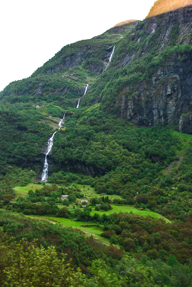 Tunnshello/Tunnshellefossen